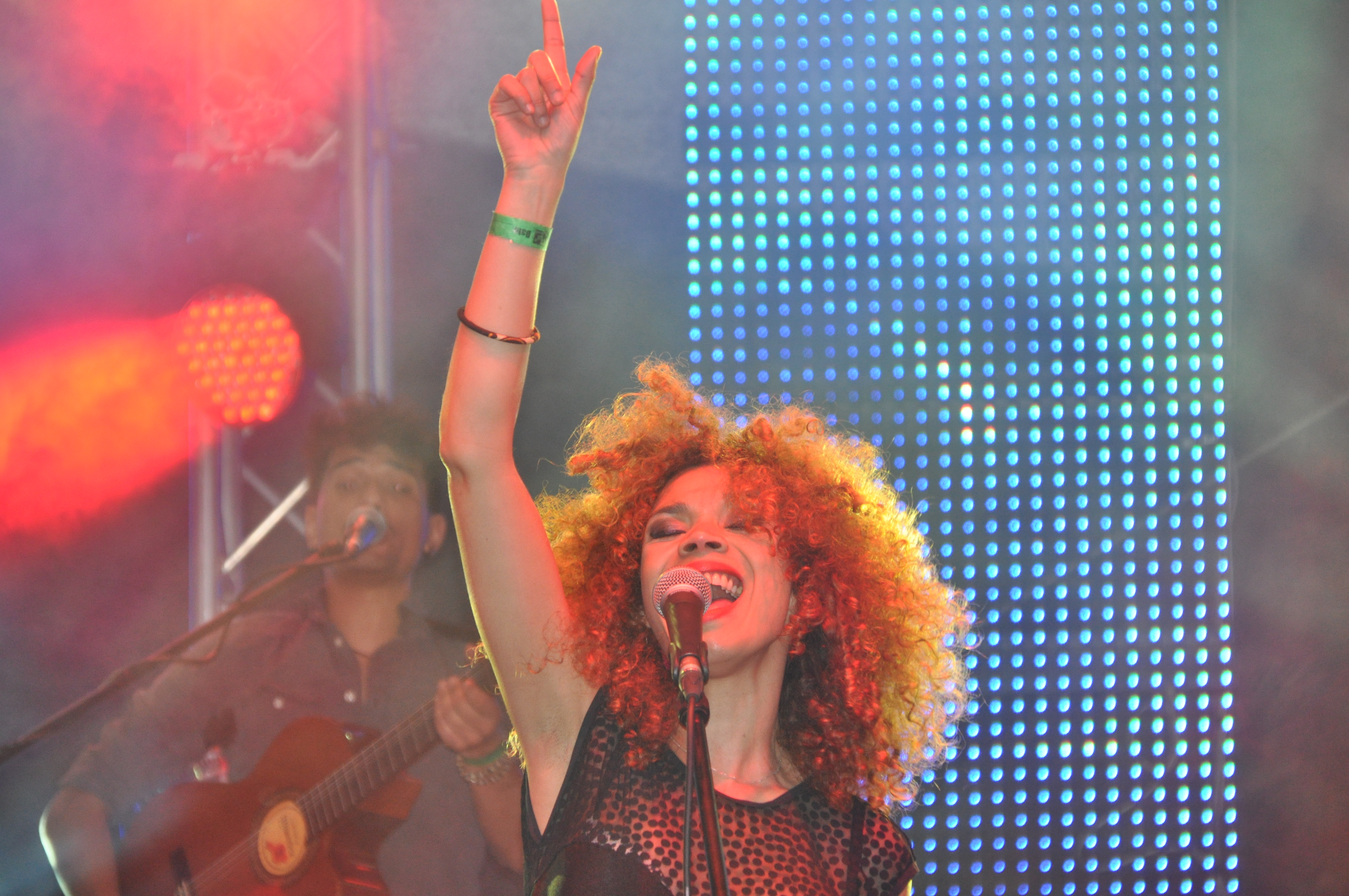 Flavia Coelho (Brazil), appearence at the 11th world music festival "Horizonte" 2013 at the fortress Ehrenbreitstein, Koblenz, Germany